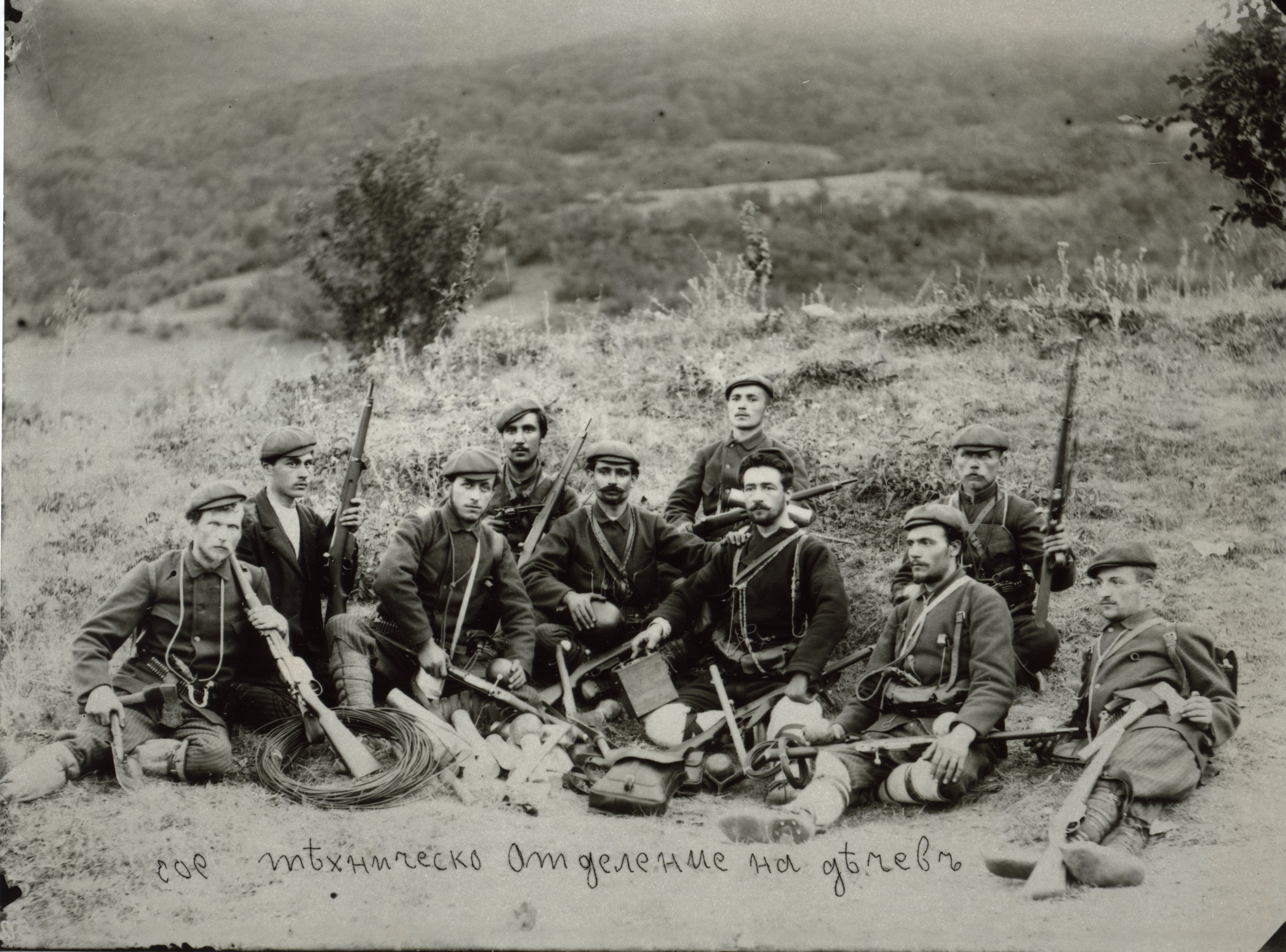 IMARO cheta of Nikola Dechev, pioner stuff